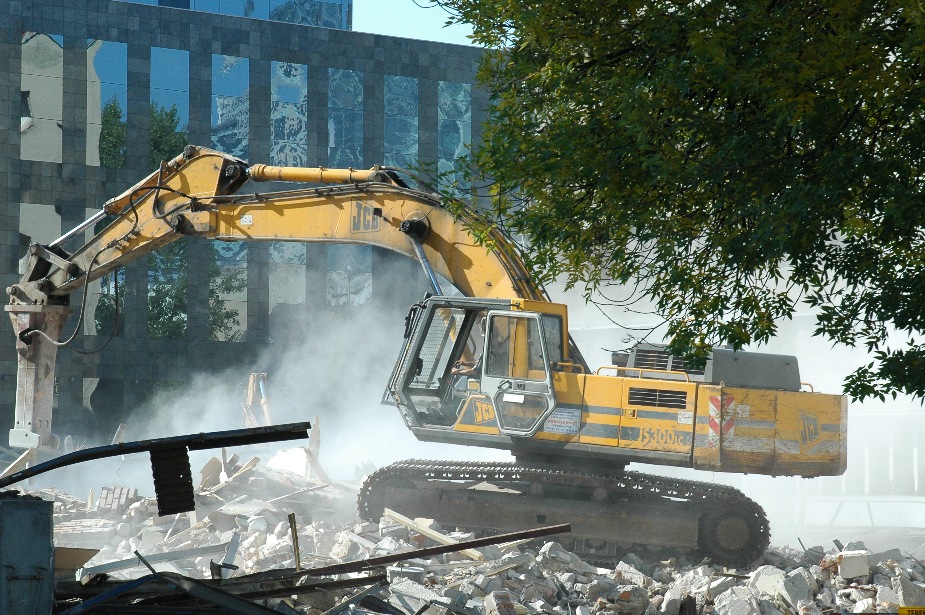 Pics made on a summer day in Warsaw, Poland; Excavator demolishing the remnants of the pre-war Postal Train Station (Dworzec Pocztowy) at Jerozolimskie Avenue.